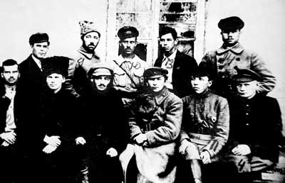 Jaroslav Hasek in Red Army